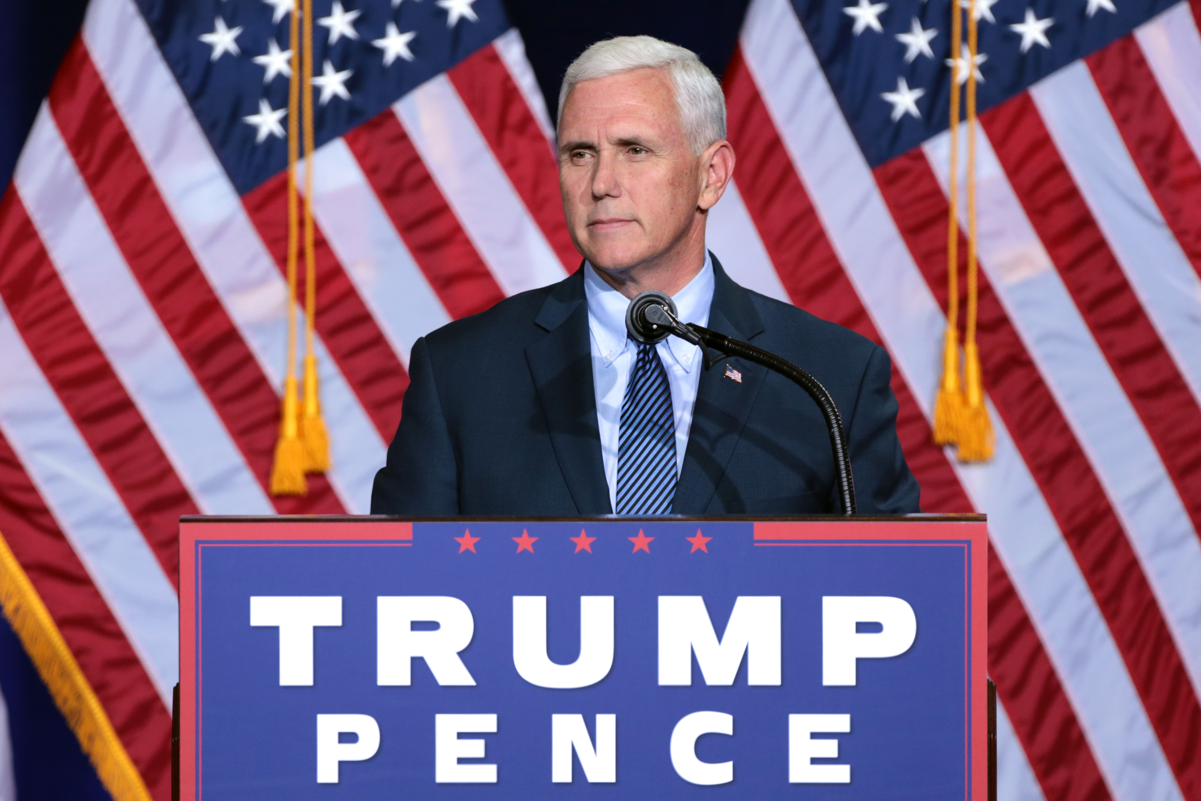 Governor Mike Pence of Indiana speaking to supporters at an immigration policy speech hosted by Donald Trump at the Phoenix Convention Center in Phoenix, Arizona.